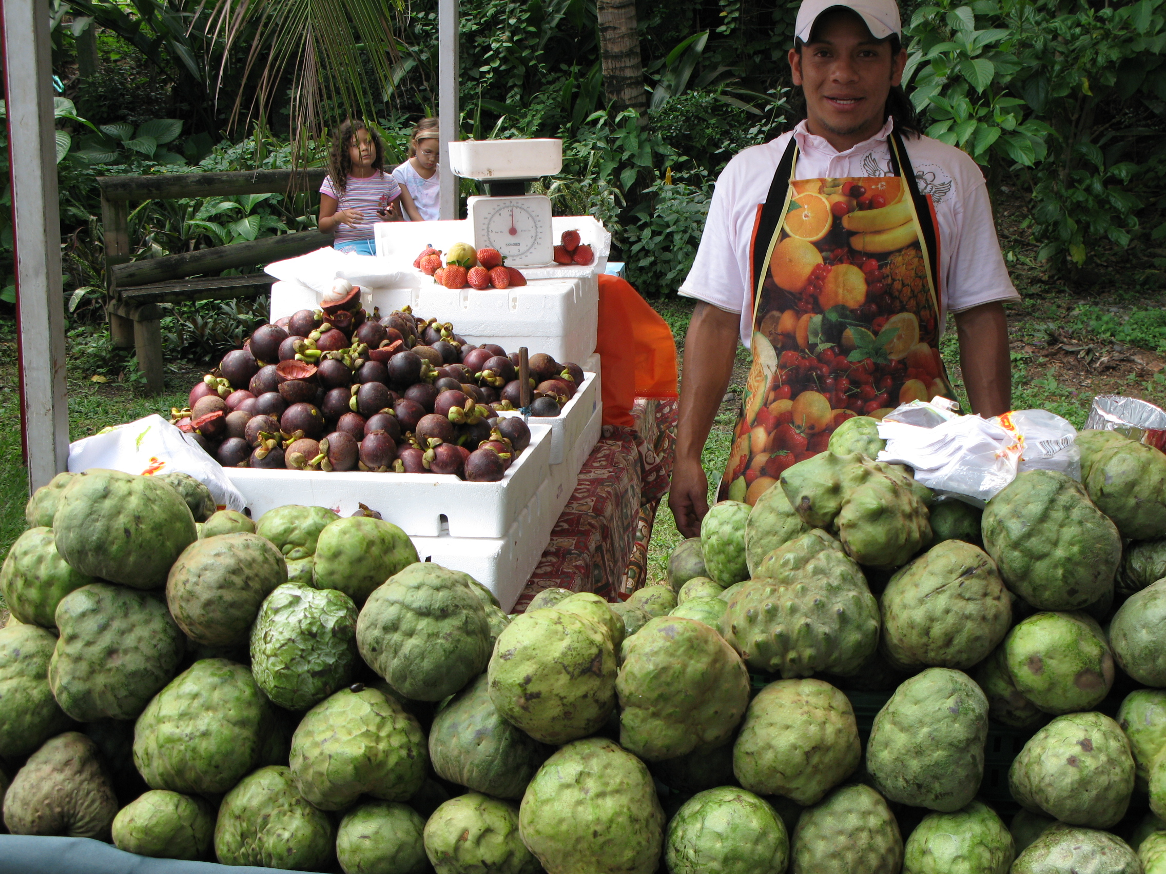 Cherimoya (Annona cherimola) on sale in Cali, Colombia. Its unique flavour and floral fragrance with sweetness and pleasant acidity makes it probably the most tastiest of all table fruits in the genus Annona. In left background: domestically produced mangosteen (Garcinia mangostana)